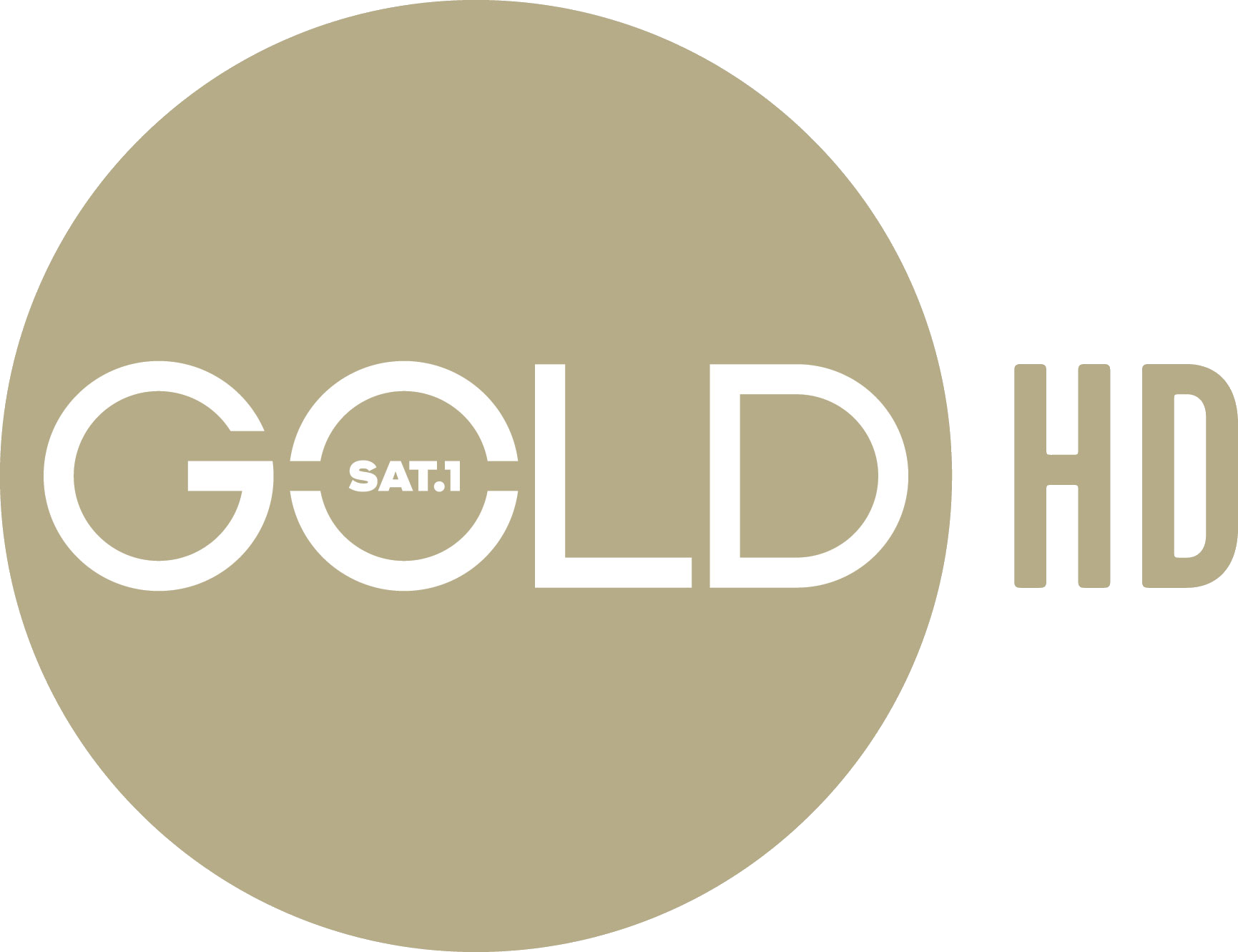 This is the Logo of Sat.1 Gold HD since January 17th 2019.